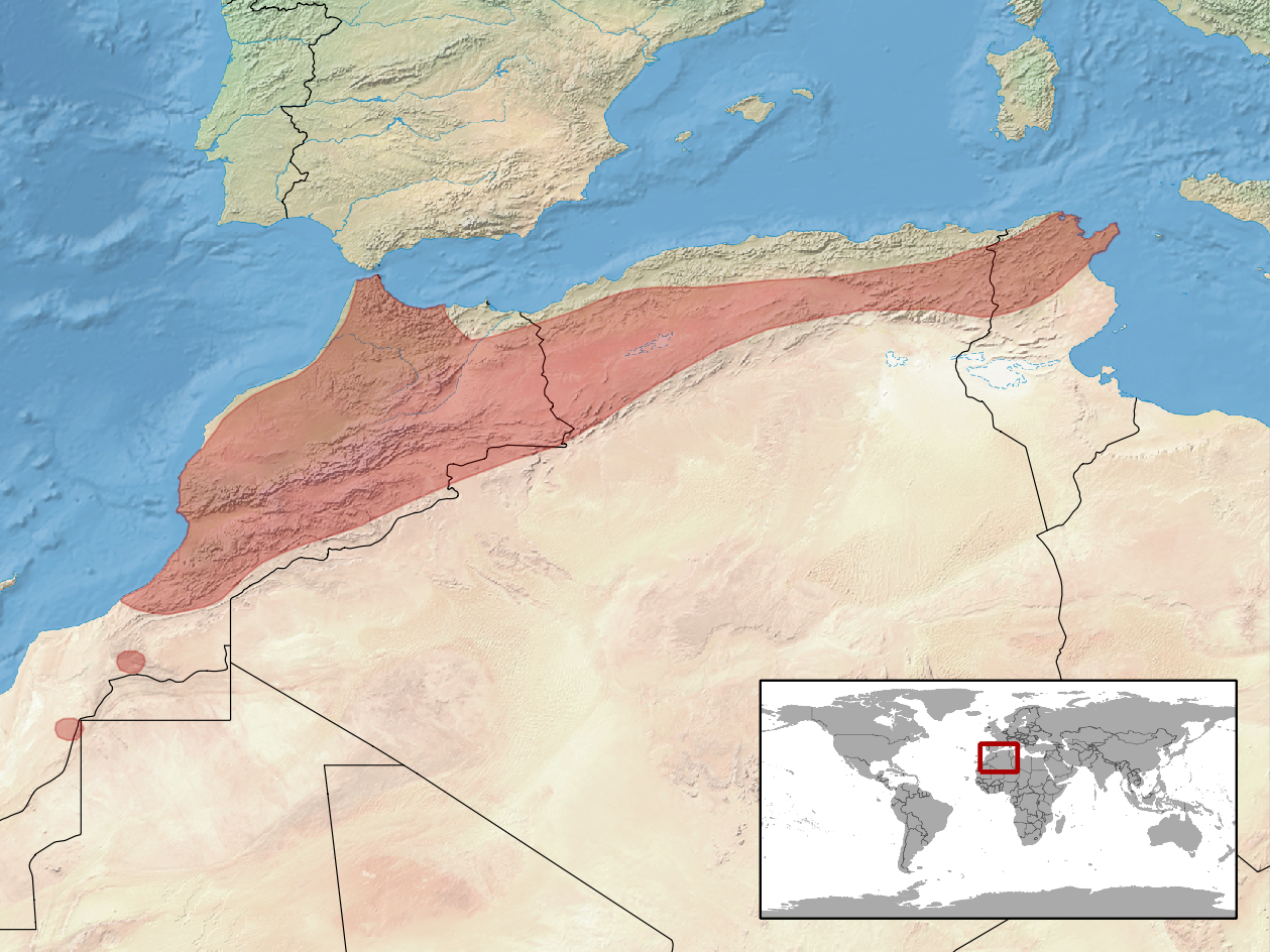 geographic distribution of Daboia mauritanica syn Macrovipera mauritanica (Native: Algeria; Morocco; Tunisia; Western Sahara)